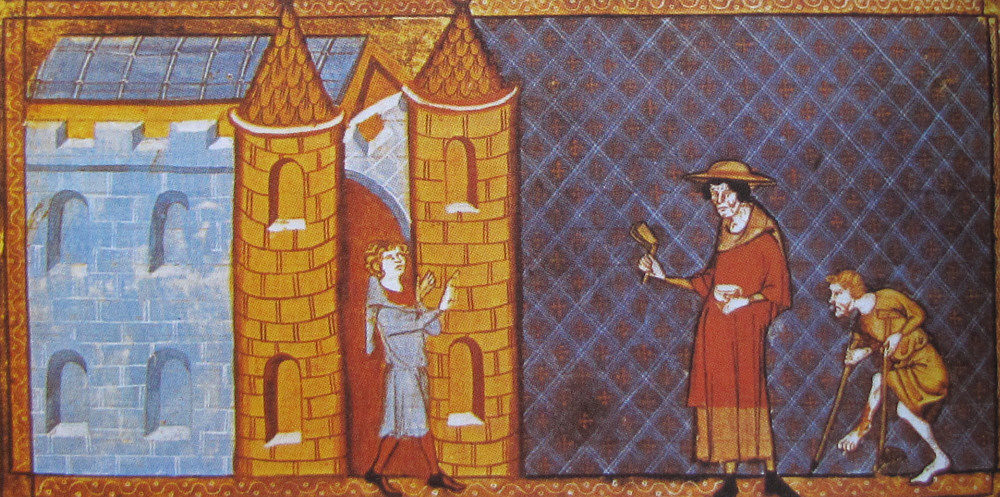 Two lepers are denied entry into the city. One has crutches; the other is wearing Lazarus dress, handbag and rattle, to announce his coming.